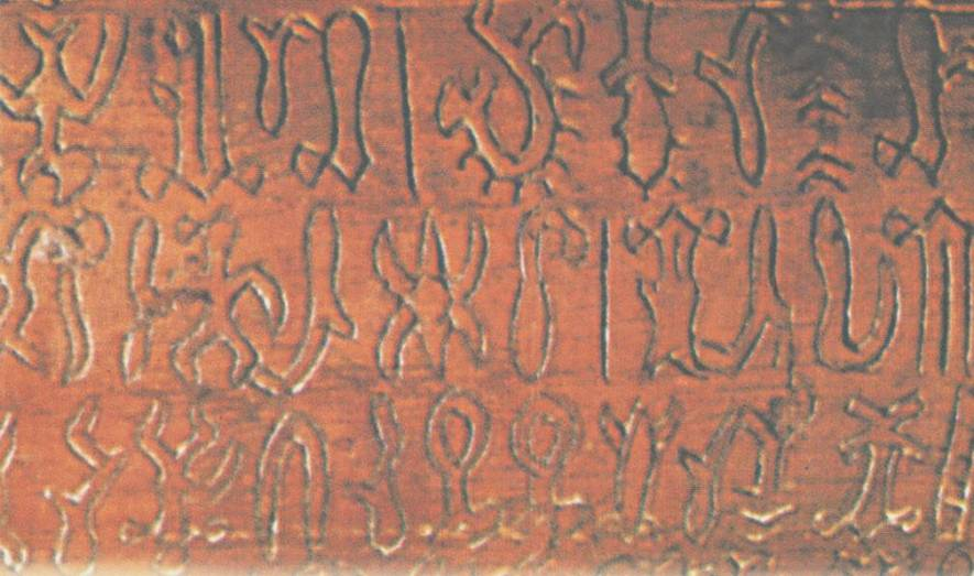 One of 26 rongorongo objects that may be authentic.